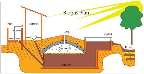 Biogas plant sketch